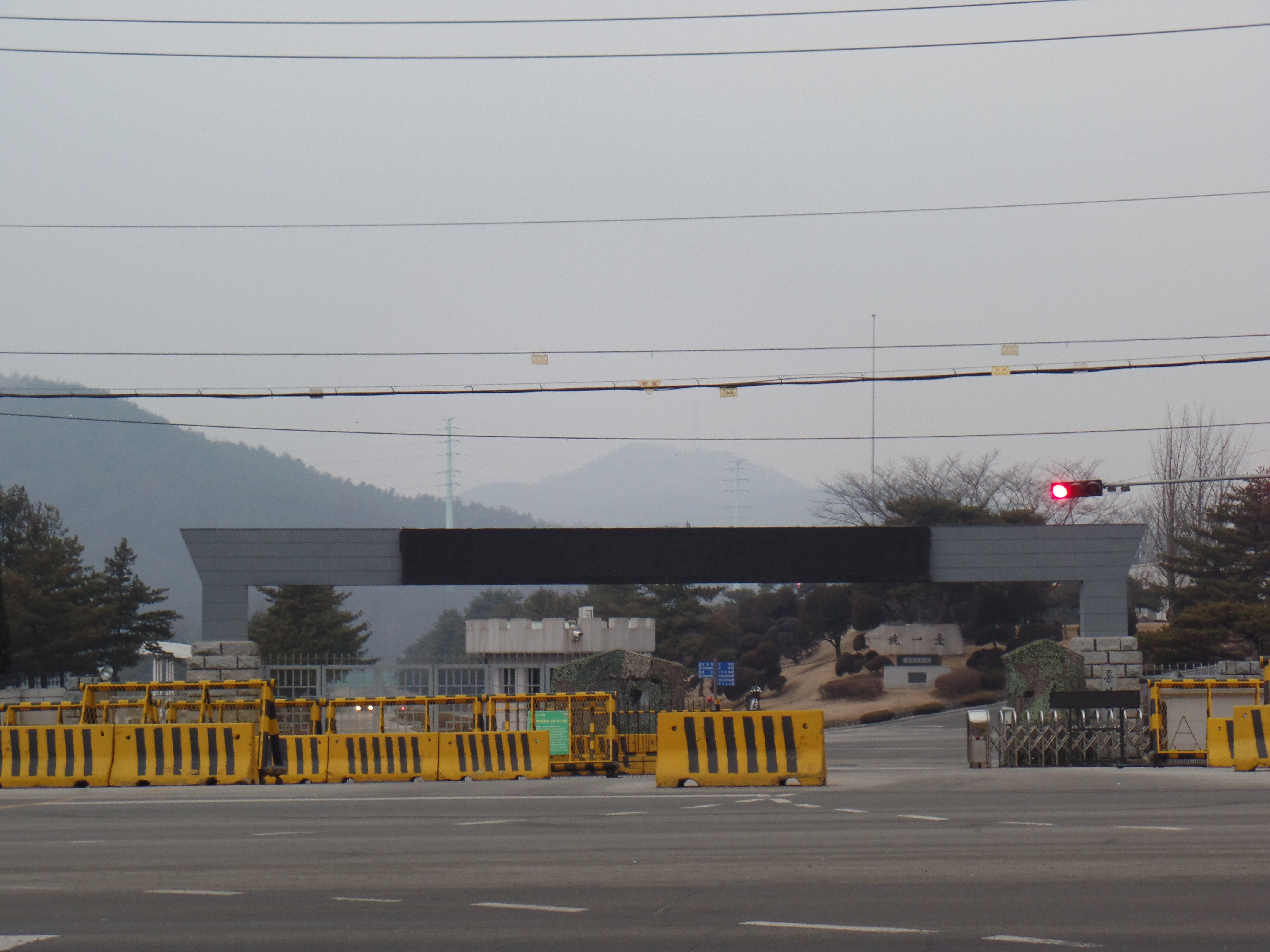 Main gate of 1st Republic of Korea Army Command